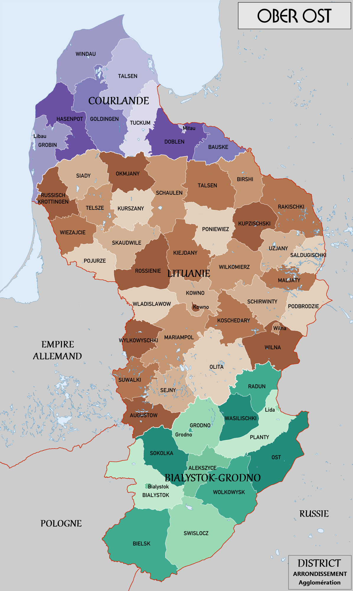 Administrative map of the Ober Ost.